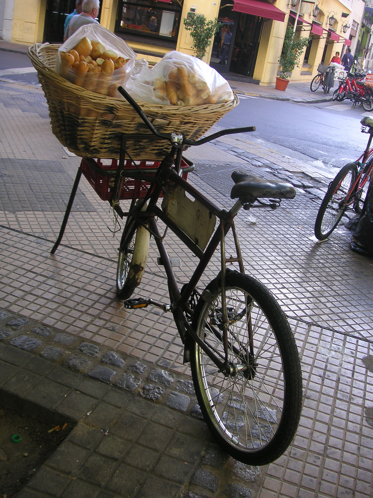 Delibike with freshly baked bread in one of Buenos Aires chamfered street corners